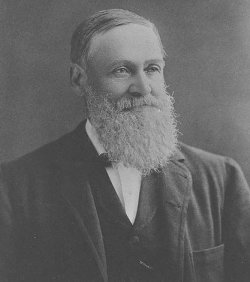 Picture of Sir Augustus Gregory. Part of: Album of photographs of Harlaxton, Toowoomba, and Brisbane.